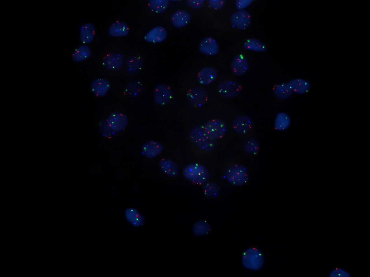 Urothelial cell's nuclei stained with DAPI and marked with FISH probes.